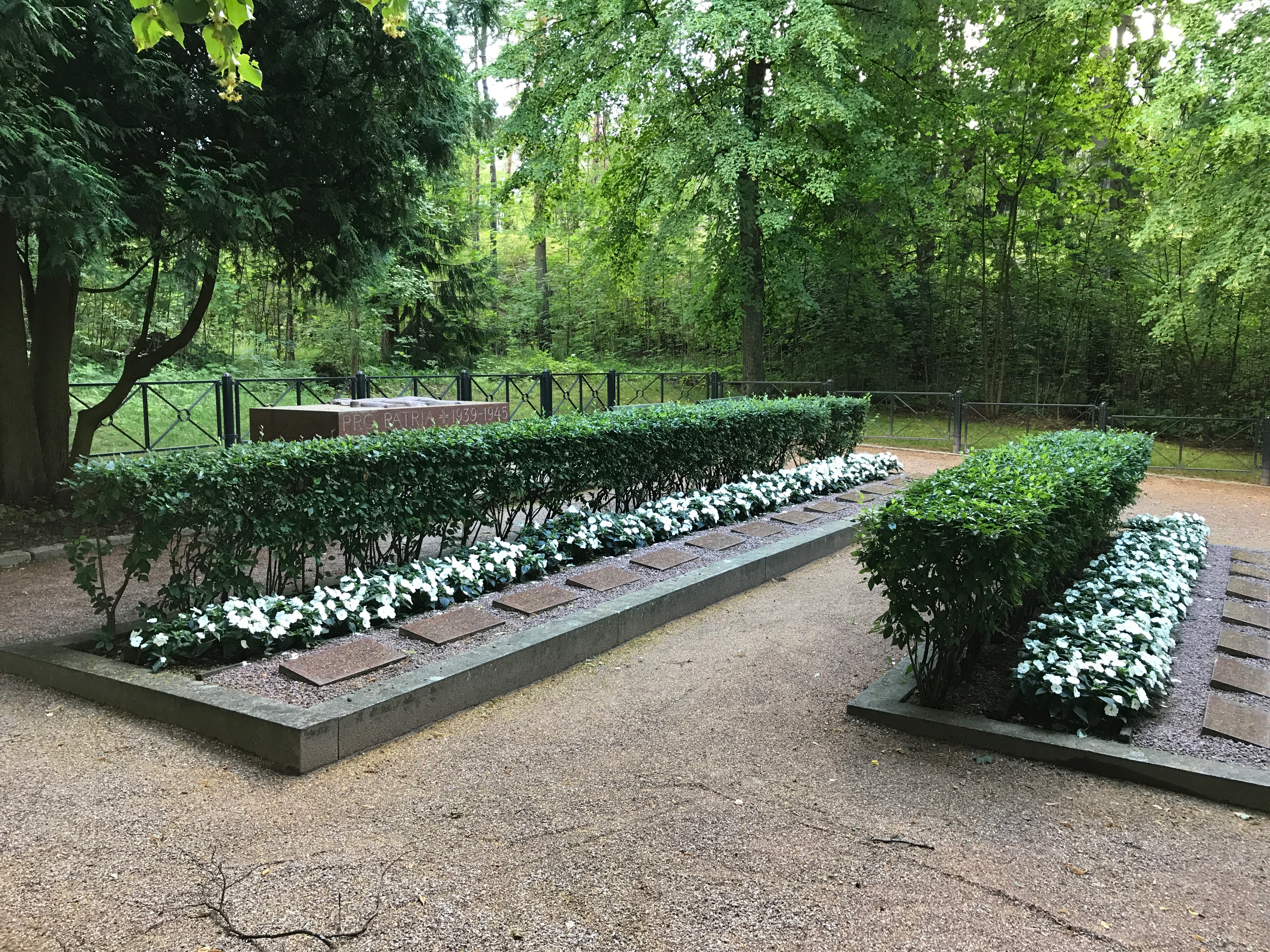 Helsinki Pitäjänmäki military cemetery, close to Helsinki and Espoo border, Mäkkylä, Espoo, Finland. - This military cemetery was established in the late 1930s as Helsinki, Pitäjänmäki area military cemetery. Several years later it was discovered that it situated actually in Espoo, not in Helsinki.